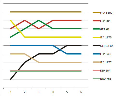 Europe Male Positions during the 2008 Vintage